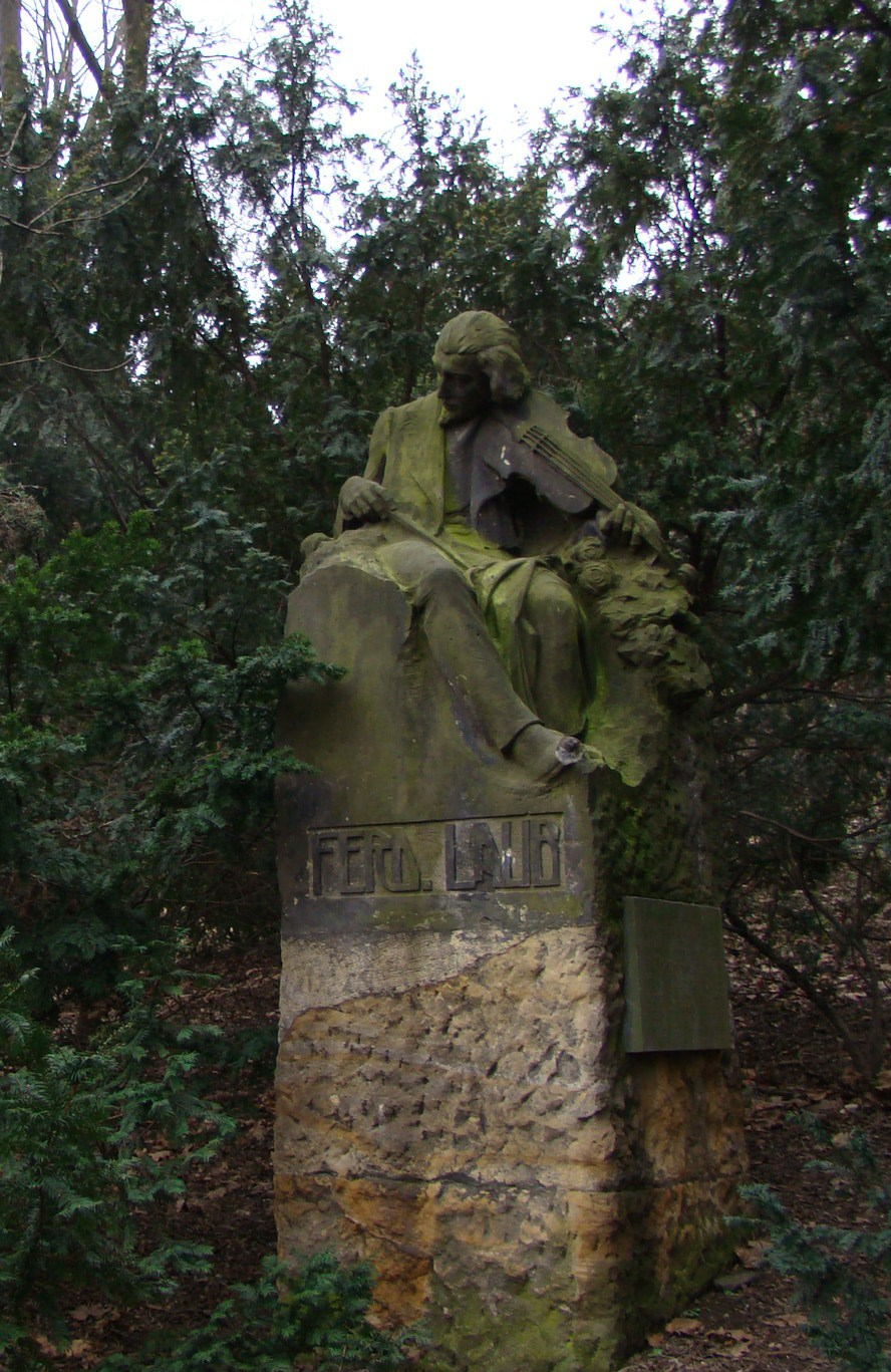 Kinského zahrada in Prague Monument to Ferdinand Laub in Prague, Czech Republic